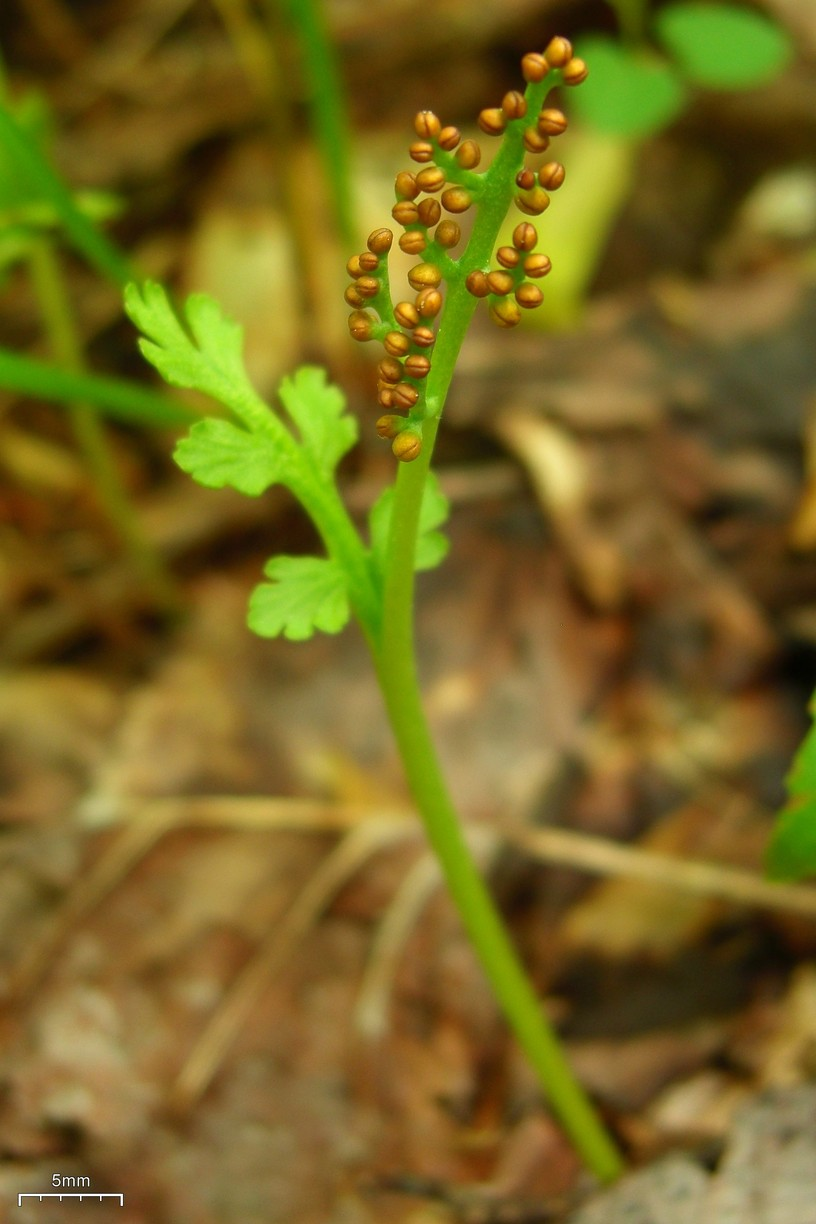 Botrychium matricariifolium? 20100518.21 Great Smoky Mountains, NC